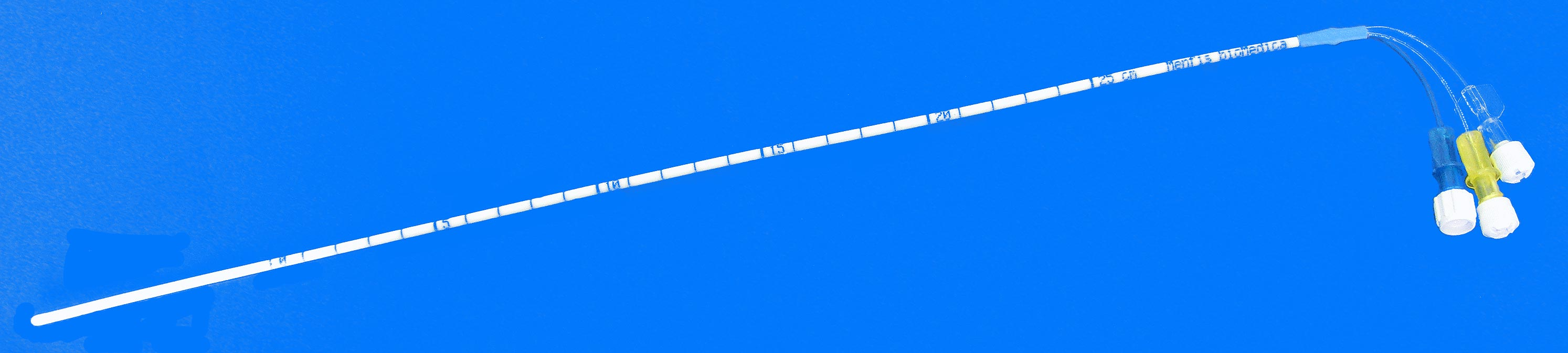 3-port catheter for anorectal manometry